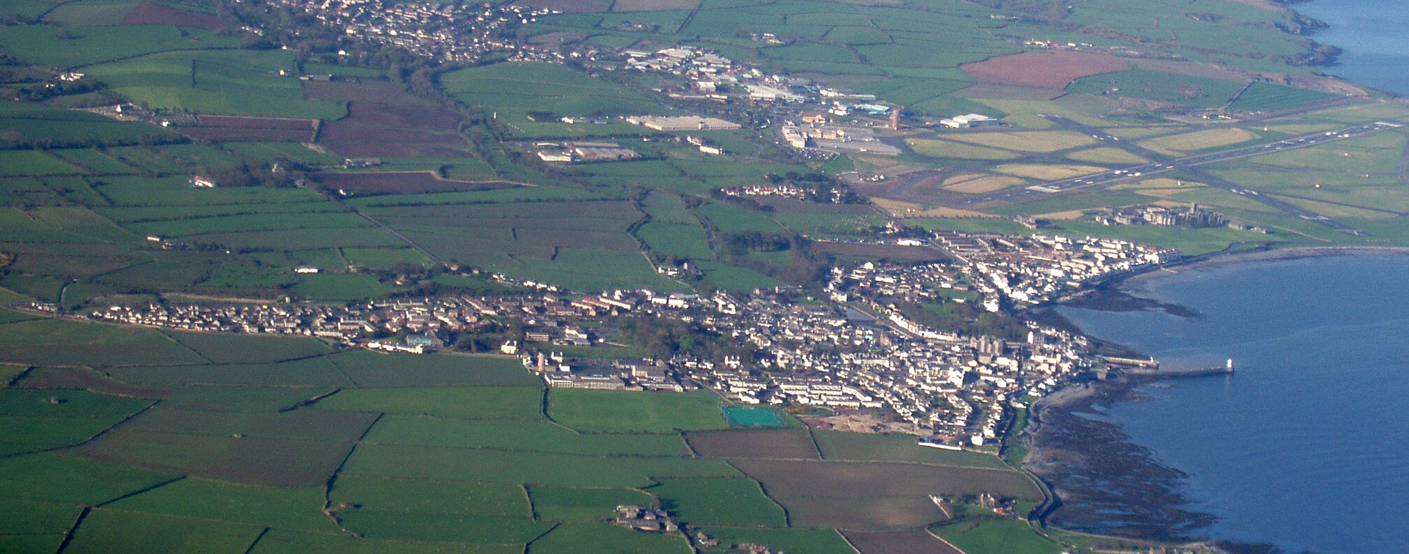 Aerial view of Castletown, Isle of Man including the coastline to Douglas Head. The runways of Ronaldsway Airport can be seen in the upper-right quadrant.